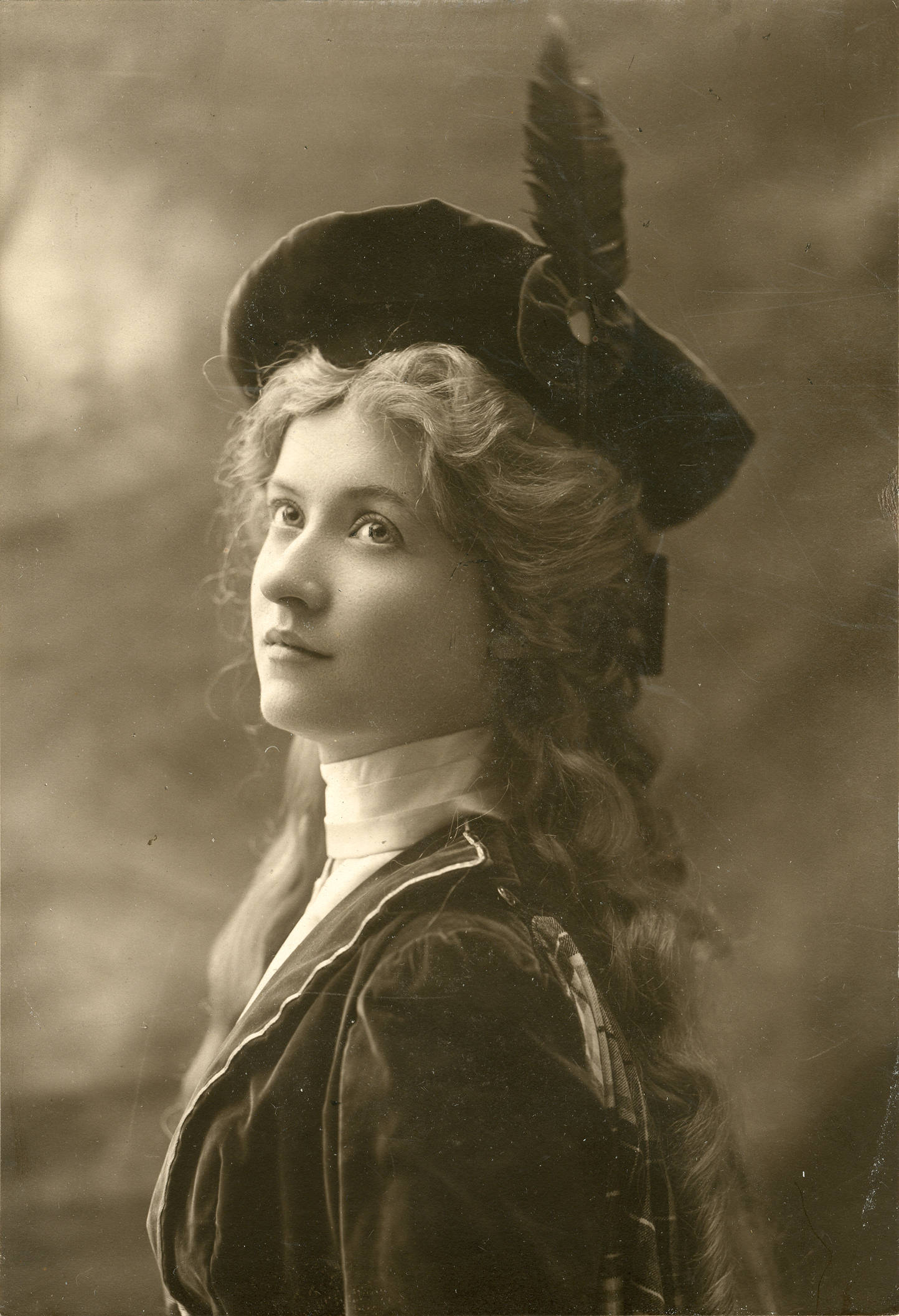 Maude Fealy, stage actress Subjects: actresses